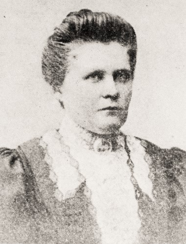 Mimmi Kanervo, Finnish Socialdemocrat Member of Parliament 1907-1917